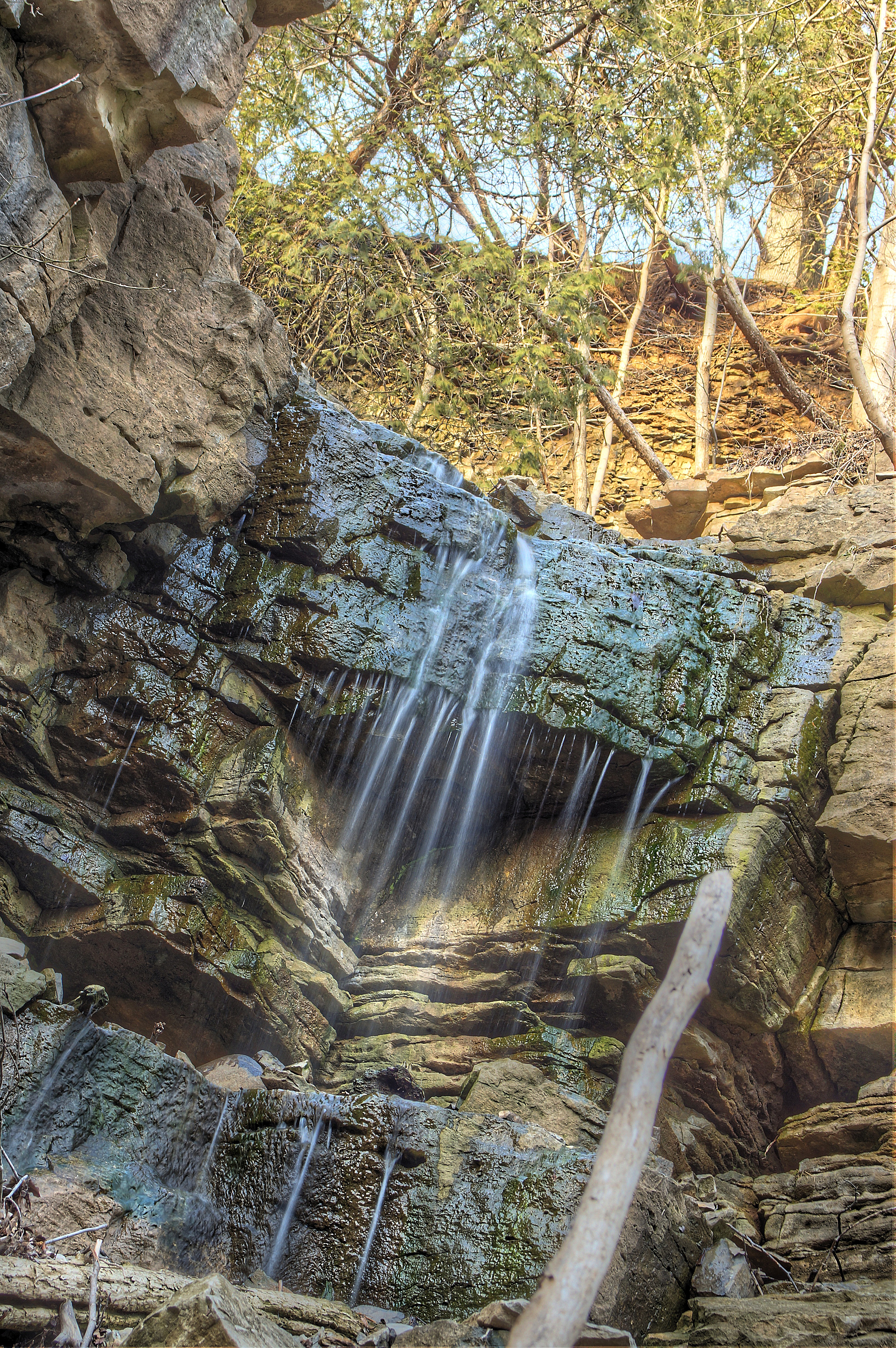 Ferguson Falls, near Tews Falls, at dusk, with low flow... there are times this falls dries up...